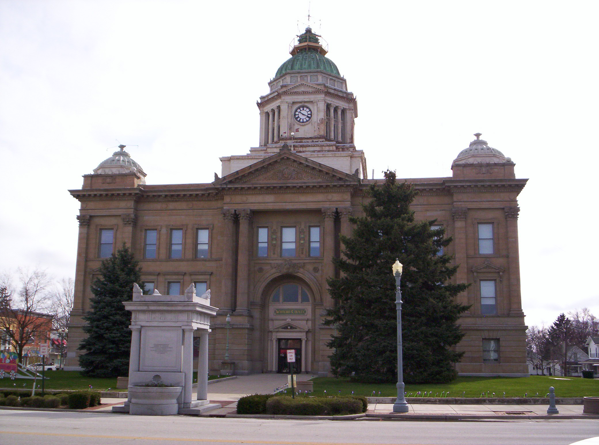 A view of the Wyandot County Courthouse in downtown Upper Sandusky, Ohio.